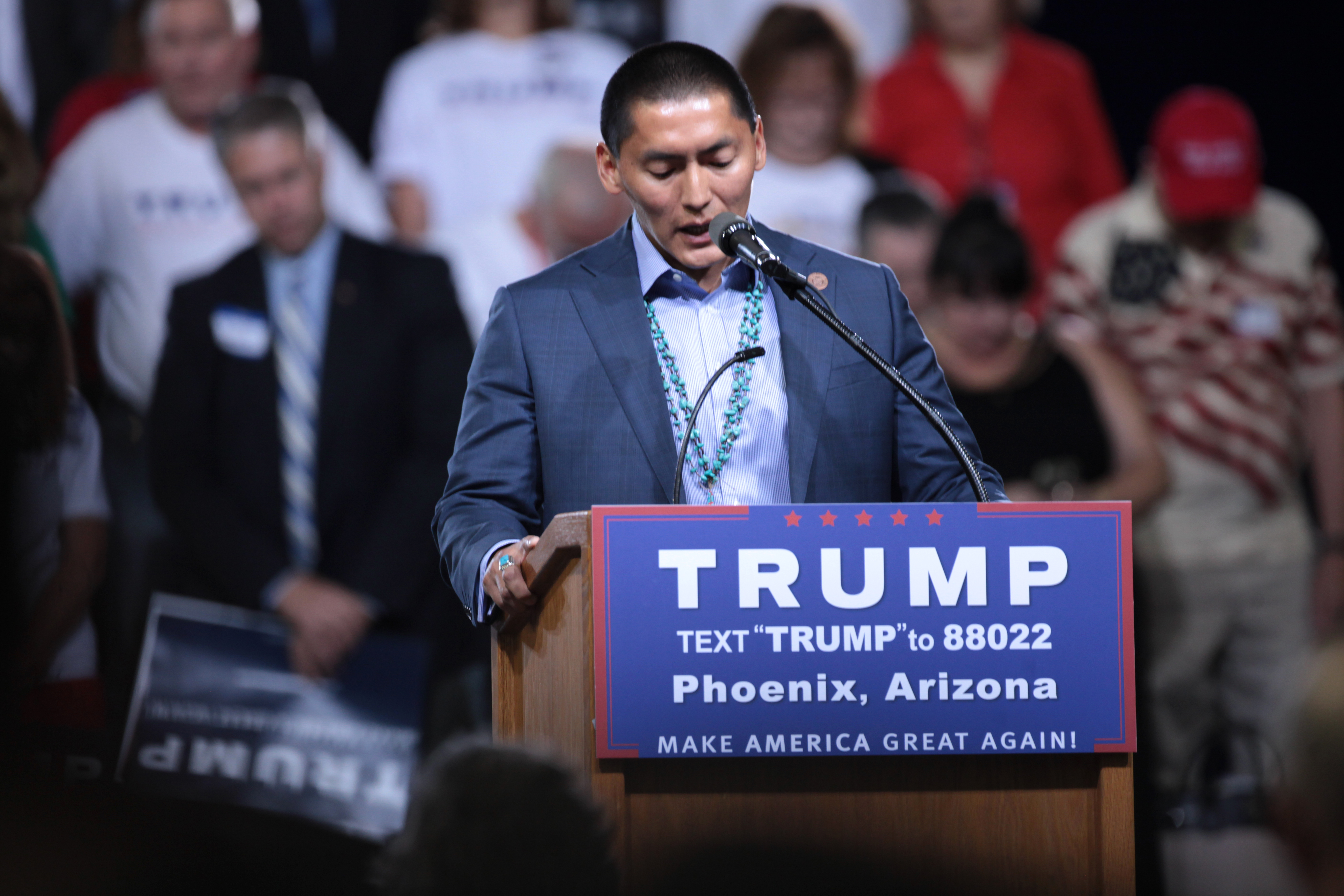 State Senator Carlyle Begay speaking with supporters of Donald Trump at a rally at Veterans Memorial Coliseum at the Arizona State Fairgrounds in Phoenix, Arizona.